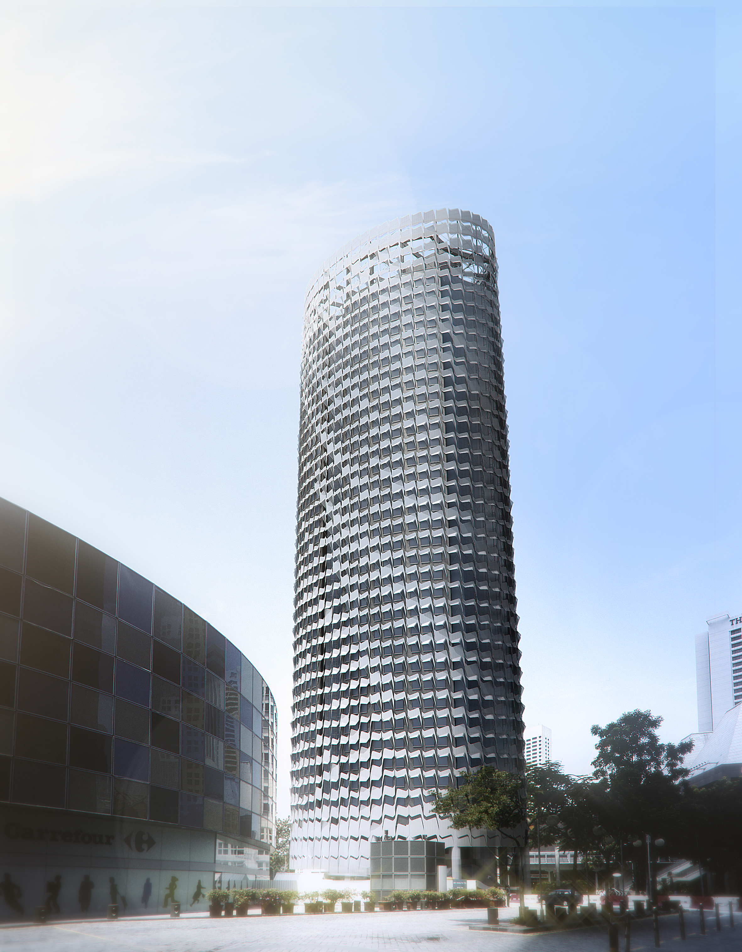 The Centennial Tower, re-envisioned in 2017